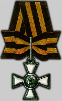 Russian Federation St George's Cross 3rd class